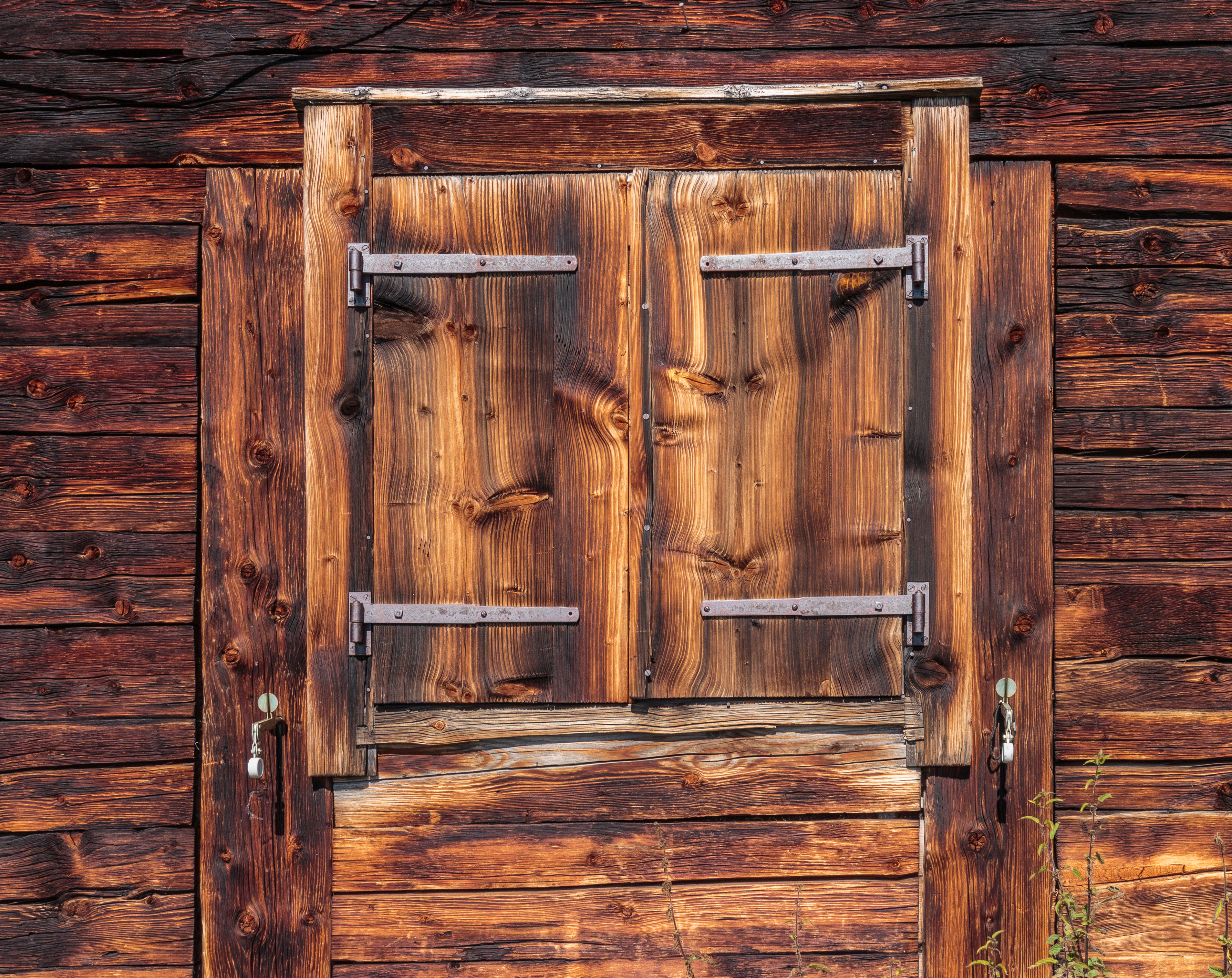 Alp Dado Sura above Breil/Brigels. Skihut/restaurant Alp Dado Sura (2070m.) Detail.